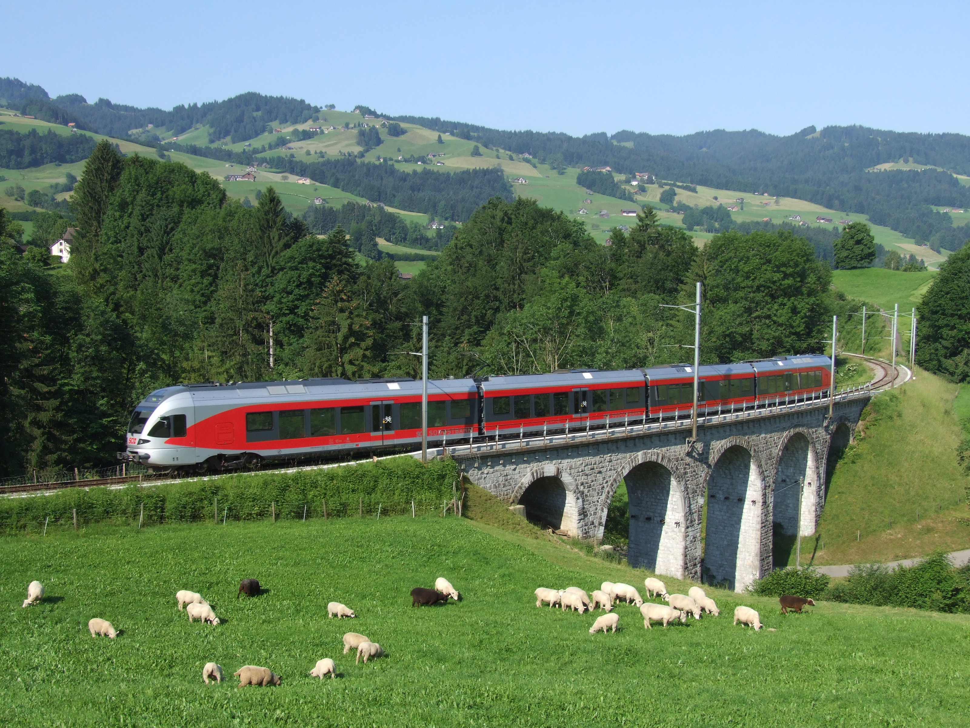 Switzerland Above Ebnat Eappel Toggenburg regional FLIRT SOB on the Giesel Bach Viaduct